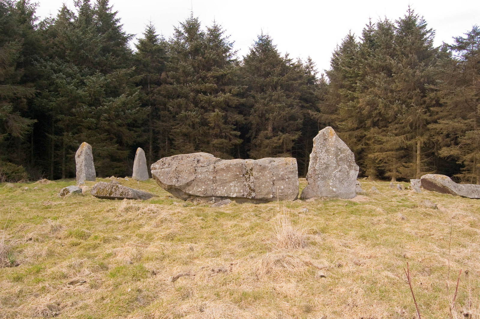 Aikey Brae Stone Circle Thought to be about 4,000 years old, this stone circle was possibly used to track lunar cycles.